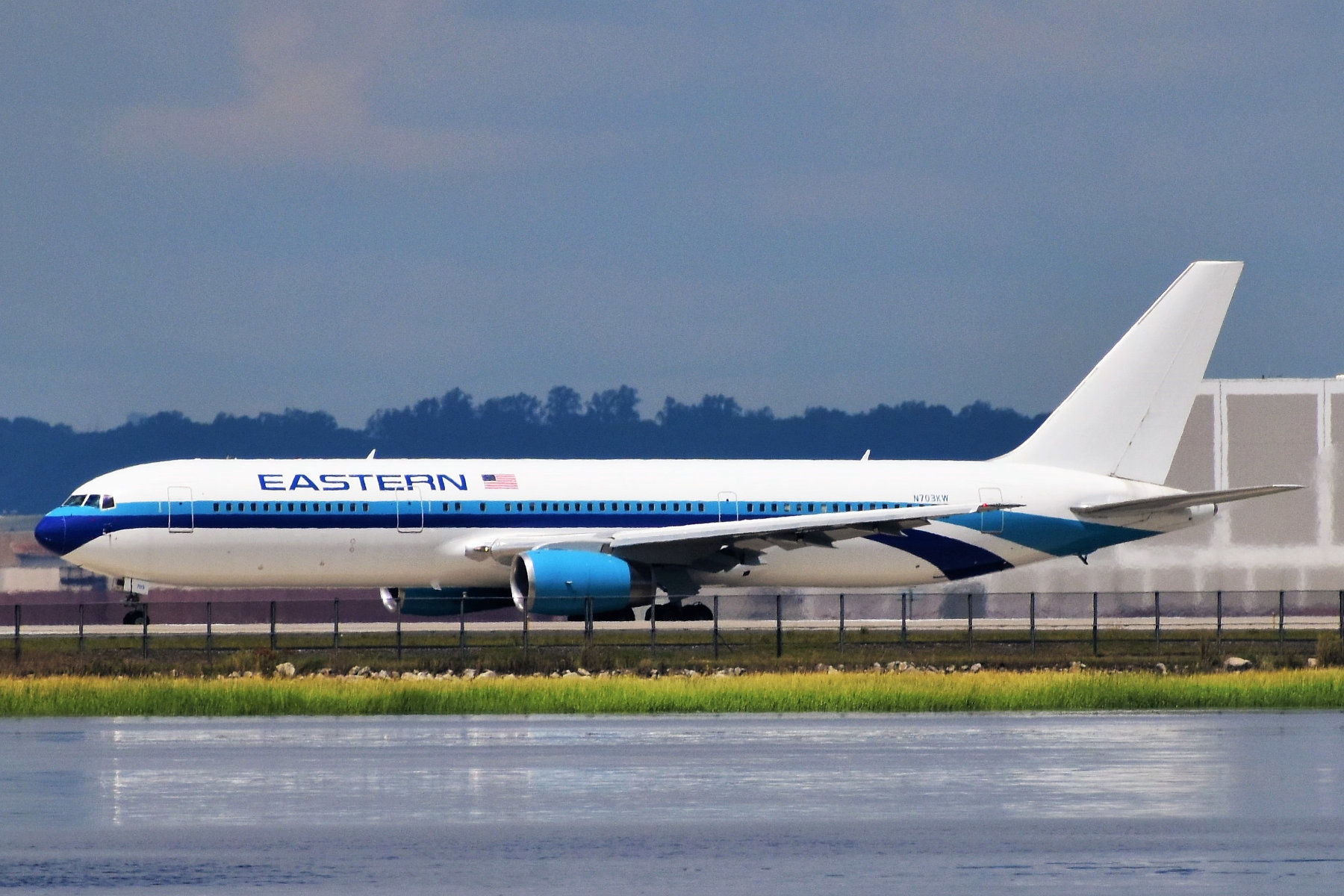 Taxiing along Taxiway K at JFK Airport (which juts out into Jamaica Bay), an Eastern Airlines Boeing 767-300(ER) is setting up for a Runway 4L departure on Flight 2D661, from JFK to PAP. The picture is taken from the nearest piece of land at Bayswater Point State Park.